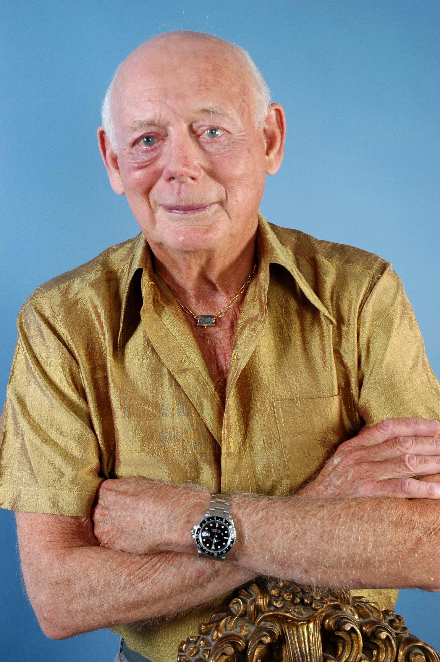 Portrait of Lord Montagu of Beaulieu